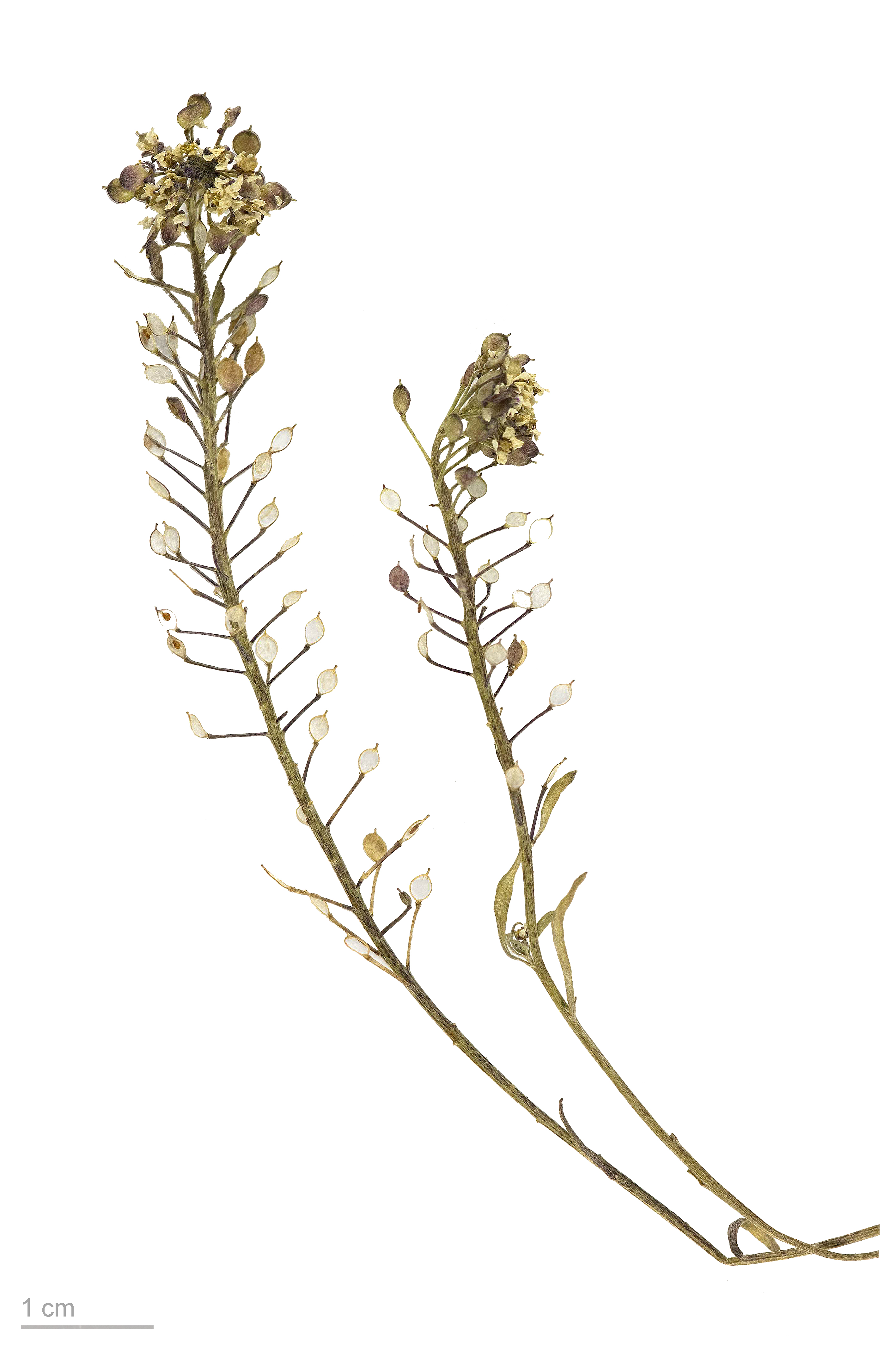 sweet alyssum, fruits and seeds